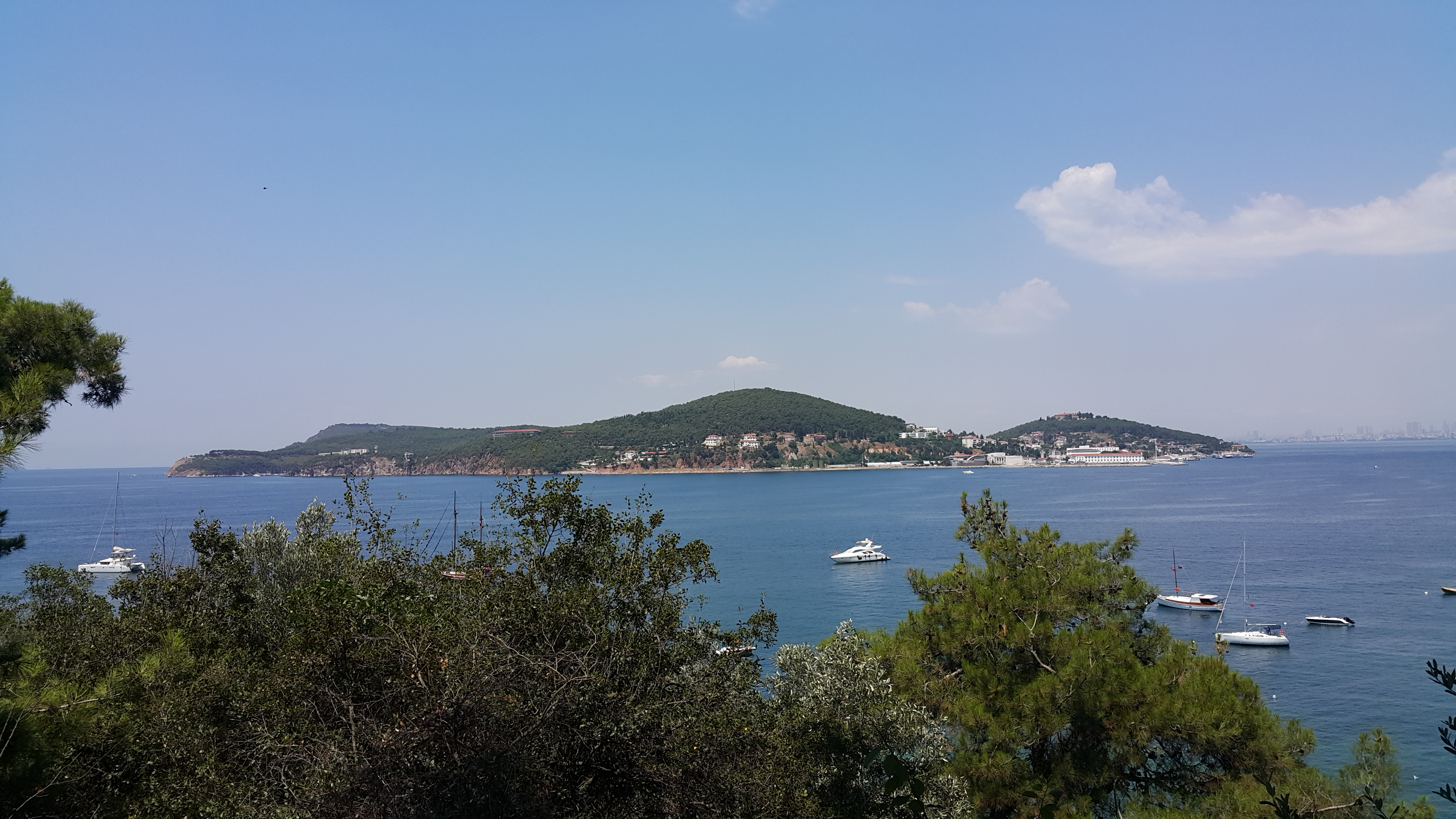 A view of Heybeliada island from Büyükada, Istanbul, Turkey